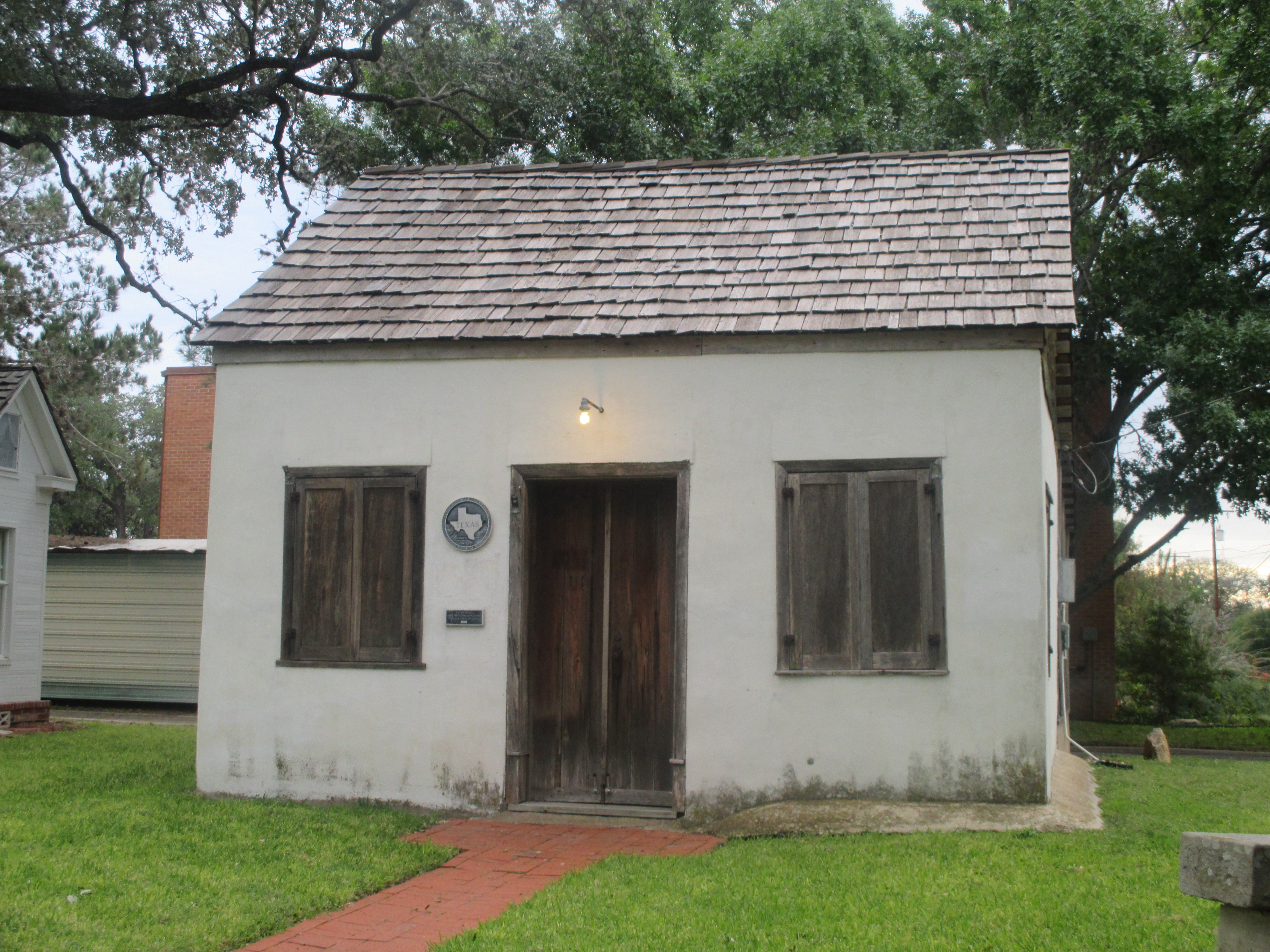 I took photo with Canon camera of Los Nogales Museum in Seguin, TX.